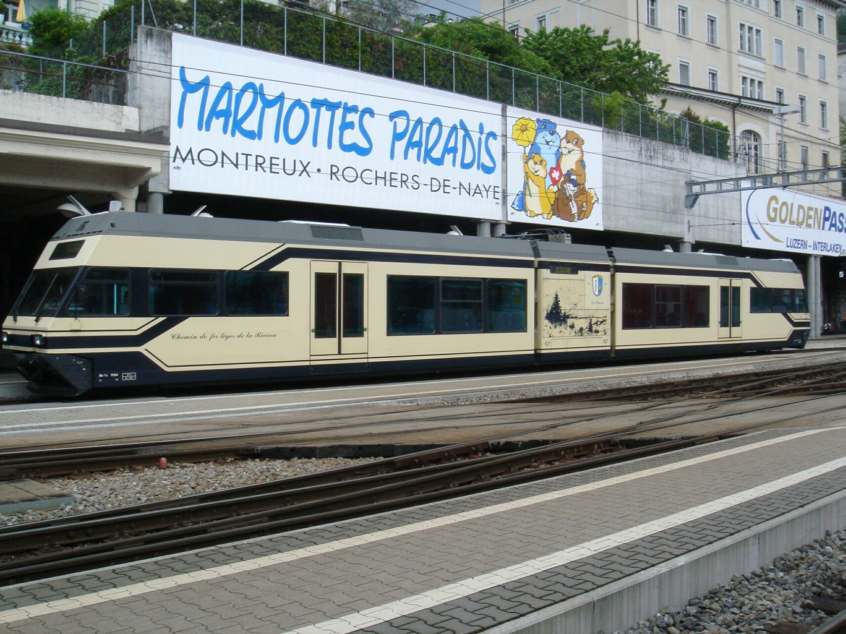 Be 2/6 7004 of Transports Montreux–Vevey–Riviera (MVR) in Montreux